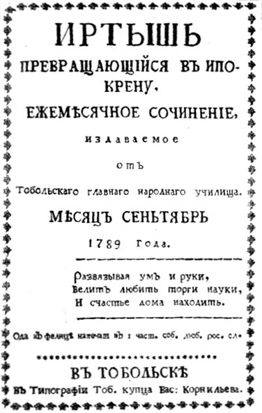 IRTYSH 1789 September title page